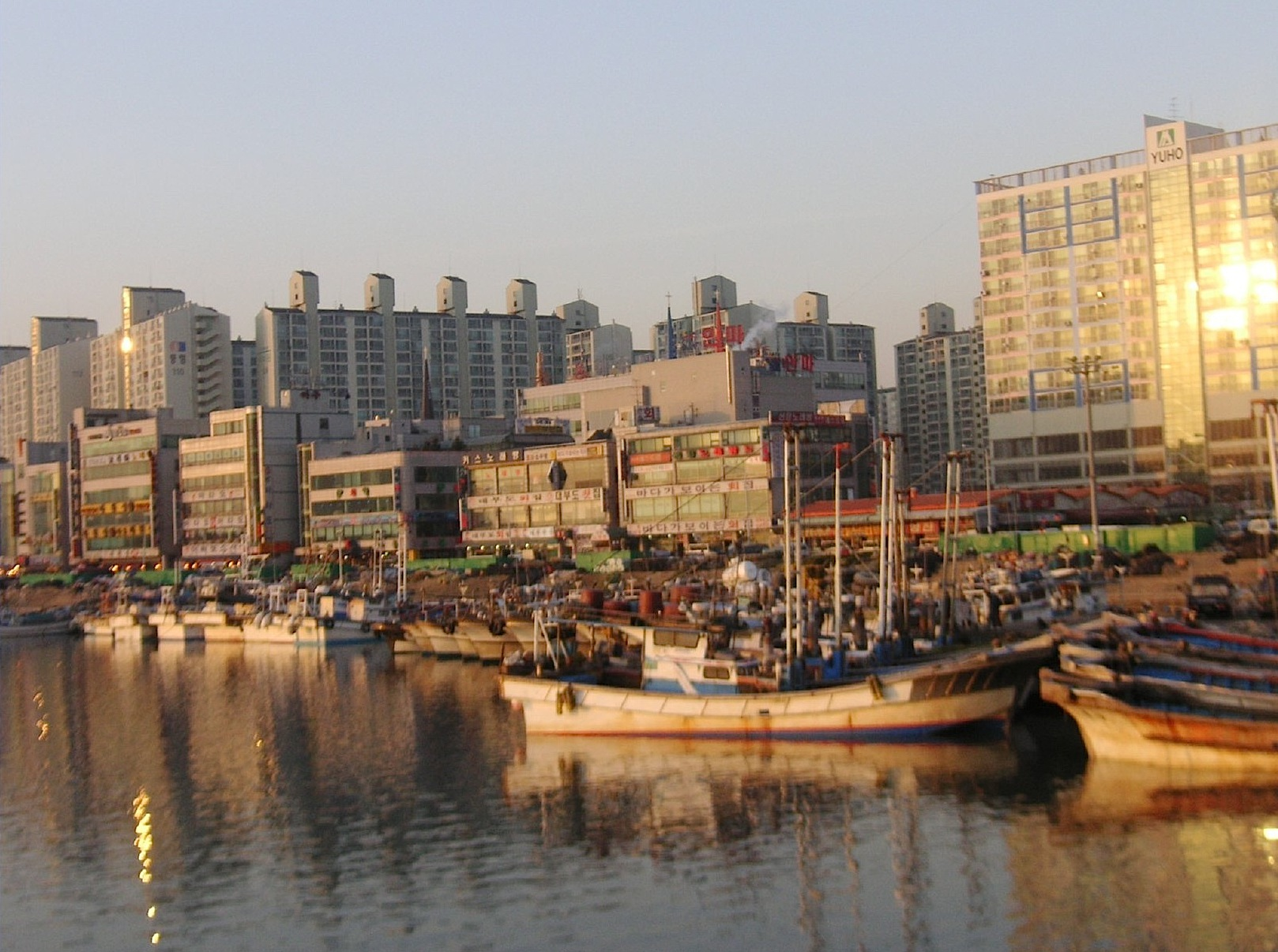 I took this past Oido station (in Siheung) way back in 2006. It is Wolgot harbor. I somehow forgot to upload it until now, but I still hope it can be useful.